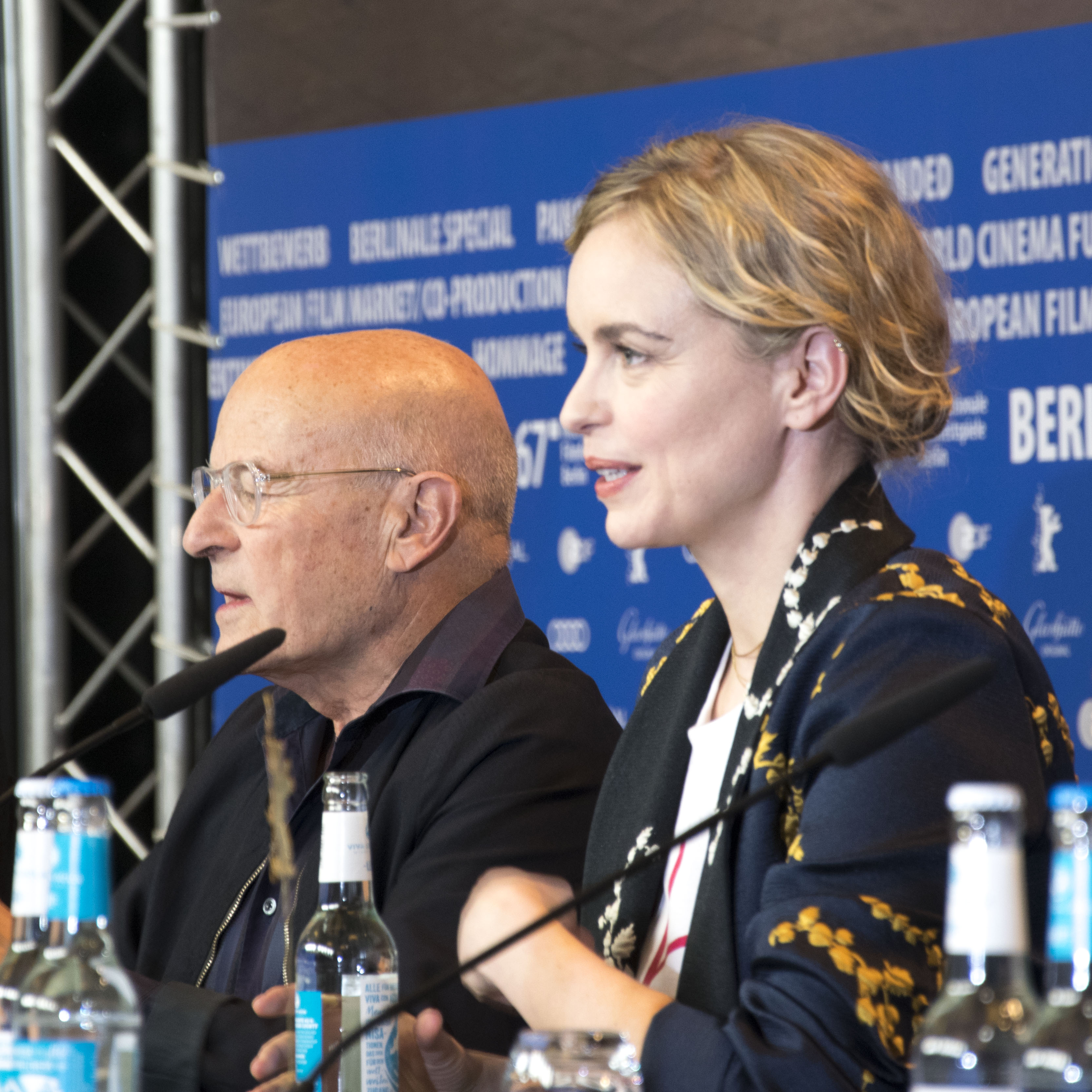 Volker Schlöndorff and Nina Hoss at the press conference of Return to Montauk at the 2017 Berlin International Film Festival